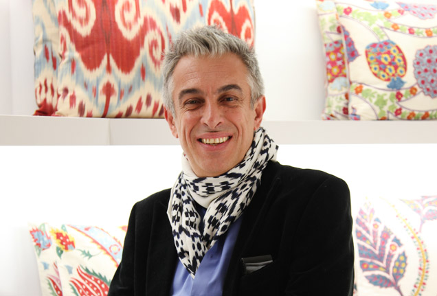 In his shop Yastik by Rifat Ozbek